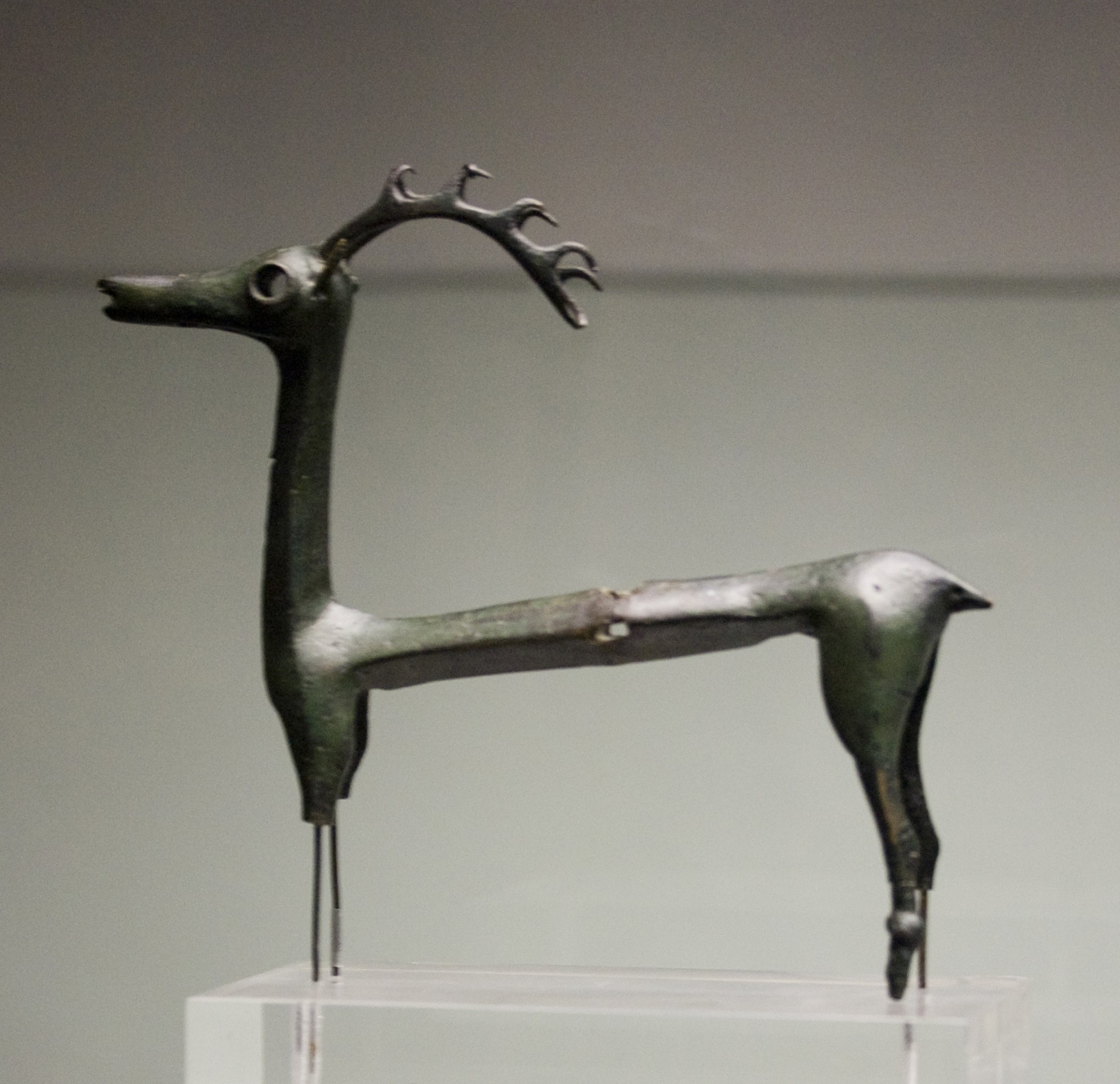 This beautiful Bronze Deer - on display on the ground floor of the National Archaeological Museum, Sofia - is dated to between the XI and VI centuries BC. This makes the animal figurine (about) 3,000 years old. It was found in the Sevlievo region.